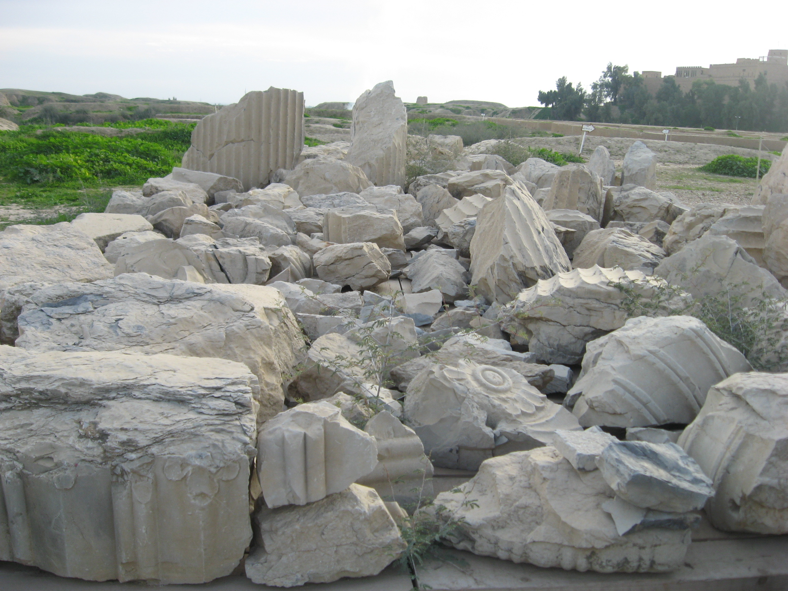 the remnant of columns in Darius I palace in Susa